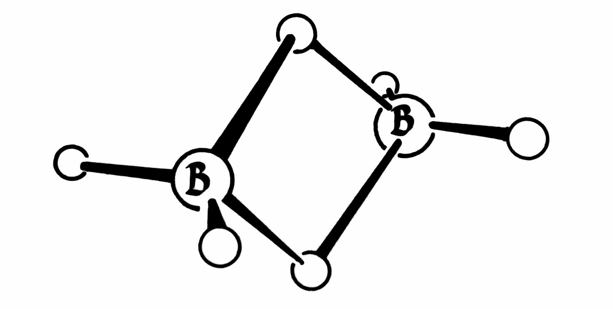 Atomic diagram of diborane (B2H6).